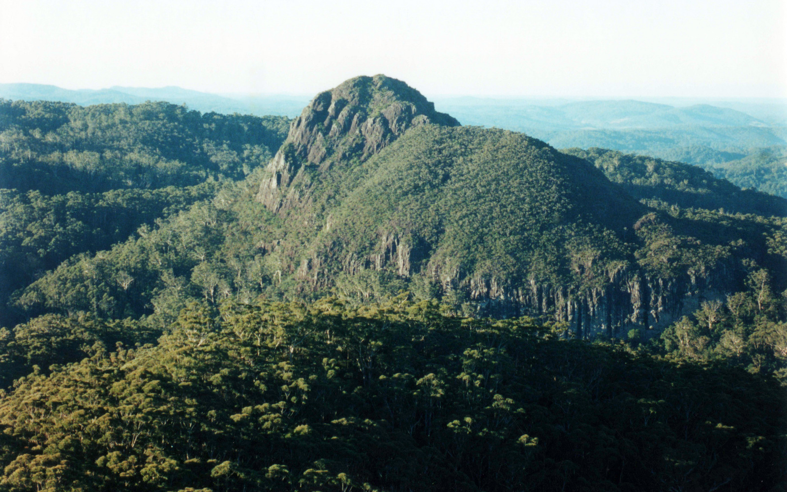 Big Nellie Mountain, photographed from Little Nellie Mountain, Coorabakh National Park. at 4:30 pm